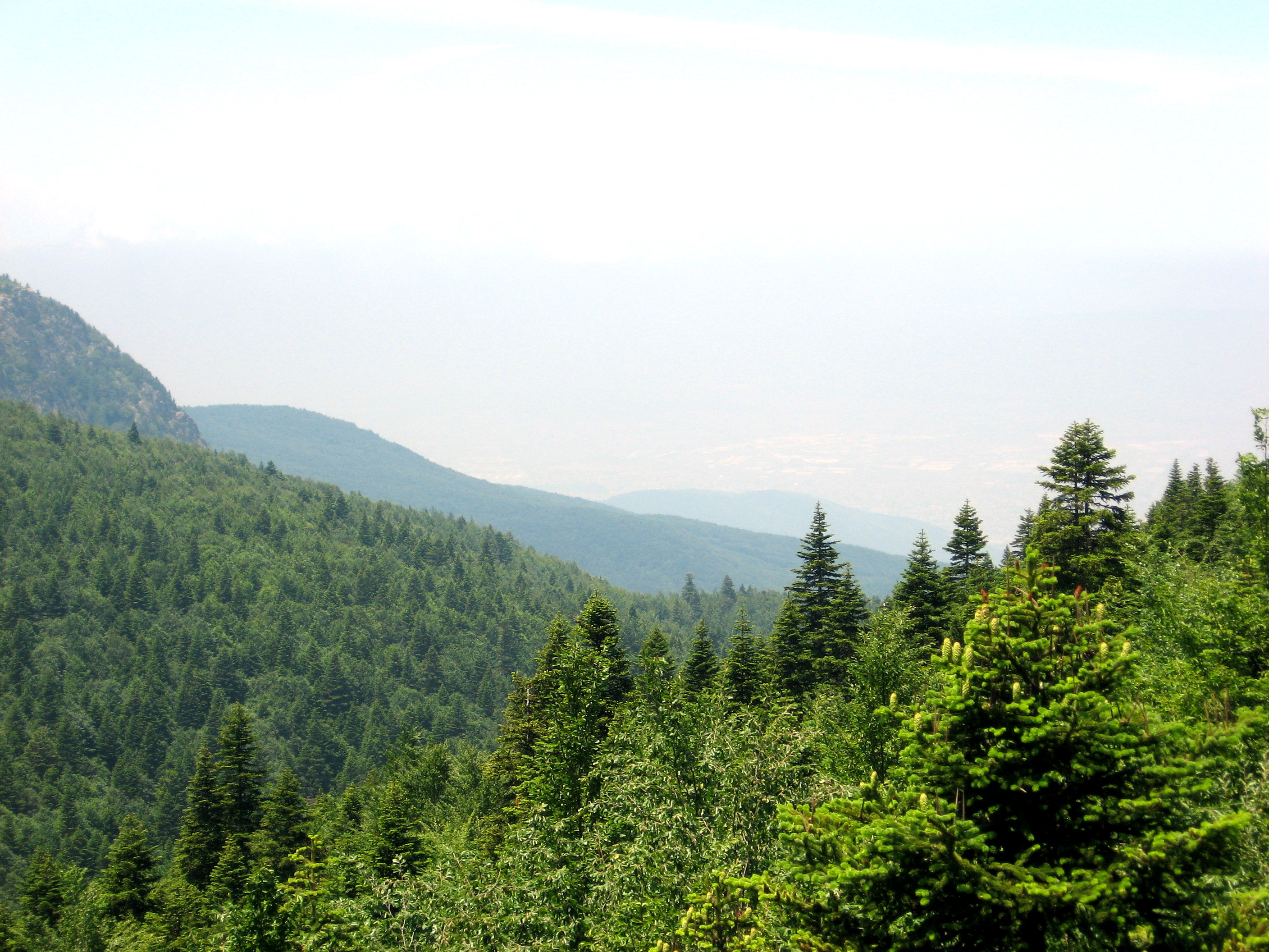 Abies nordmanniana subsp. bornmuelleriana forest, Uludağ, Turkey.